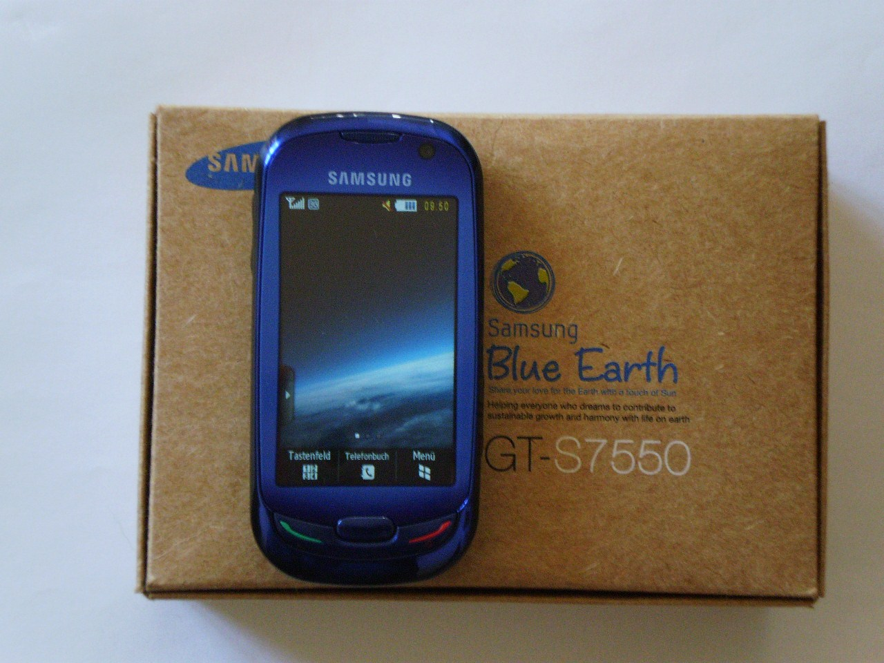 Samsung GT-S7550 Blue Earth front